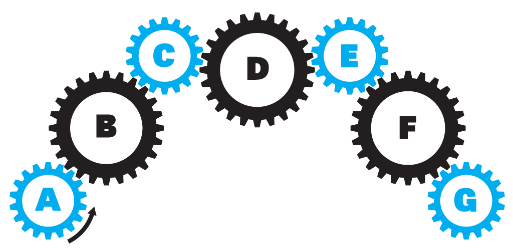 Image of multiple gears with different sizes and directions to test mechanical aptitude.